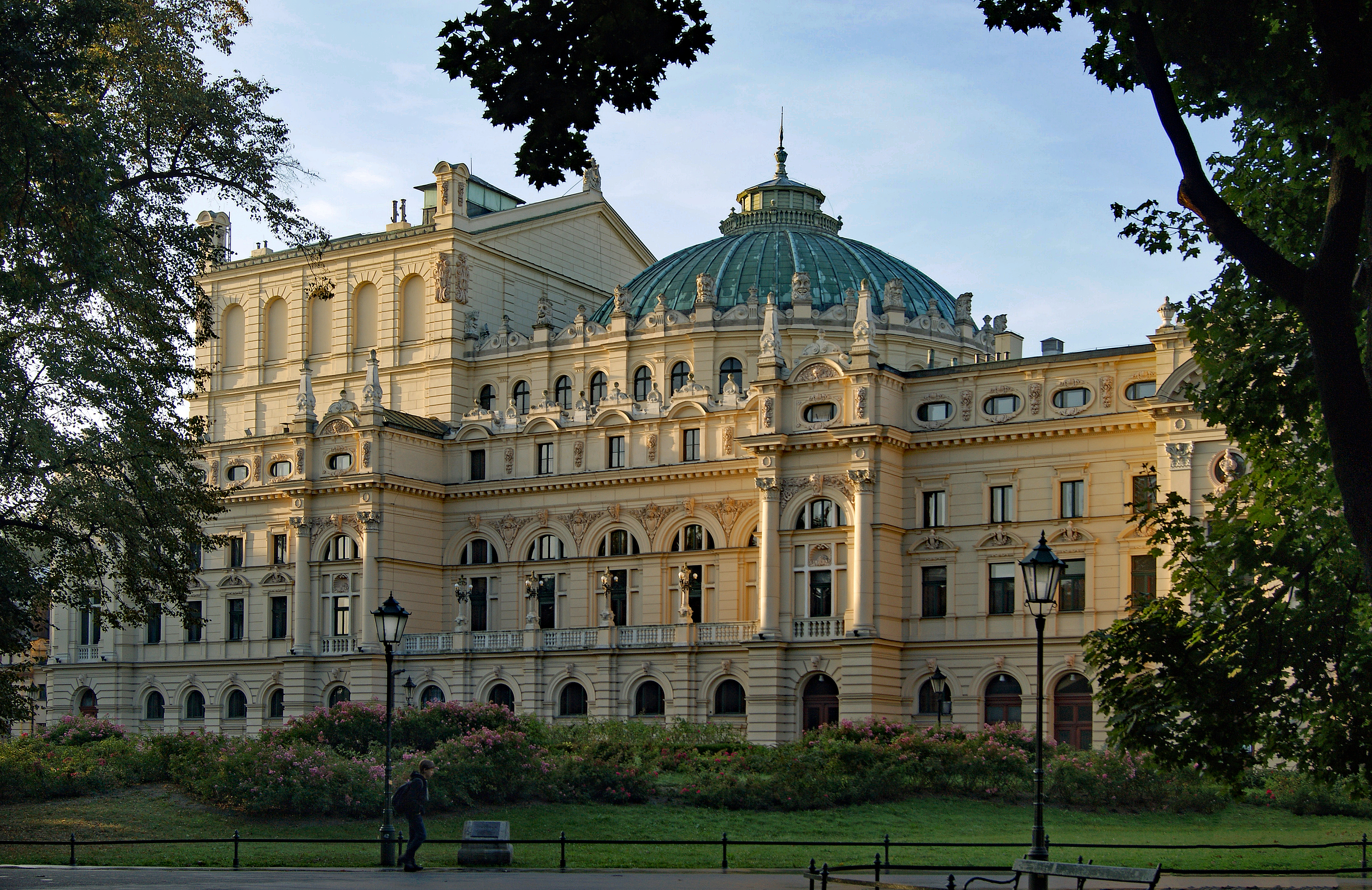 Juliusz Slowacki Theater, 1 Sw. Ducha square, Old Town, Krakow, Poland